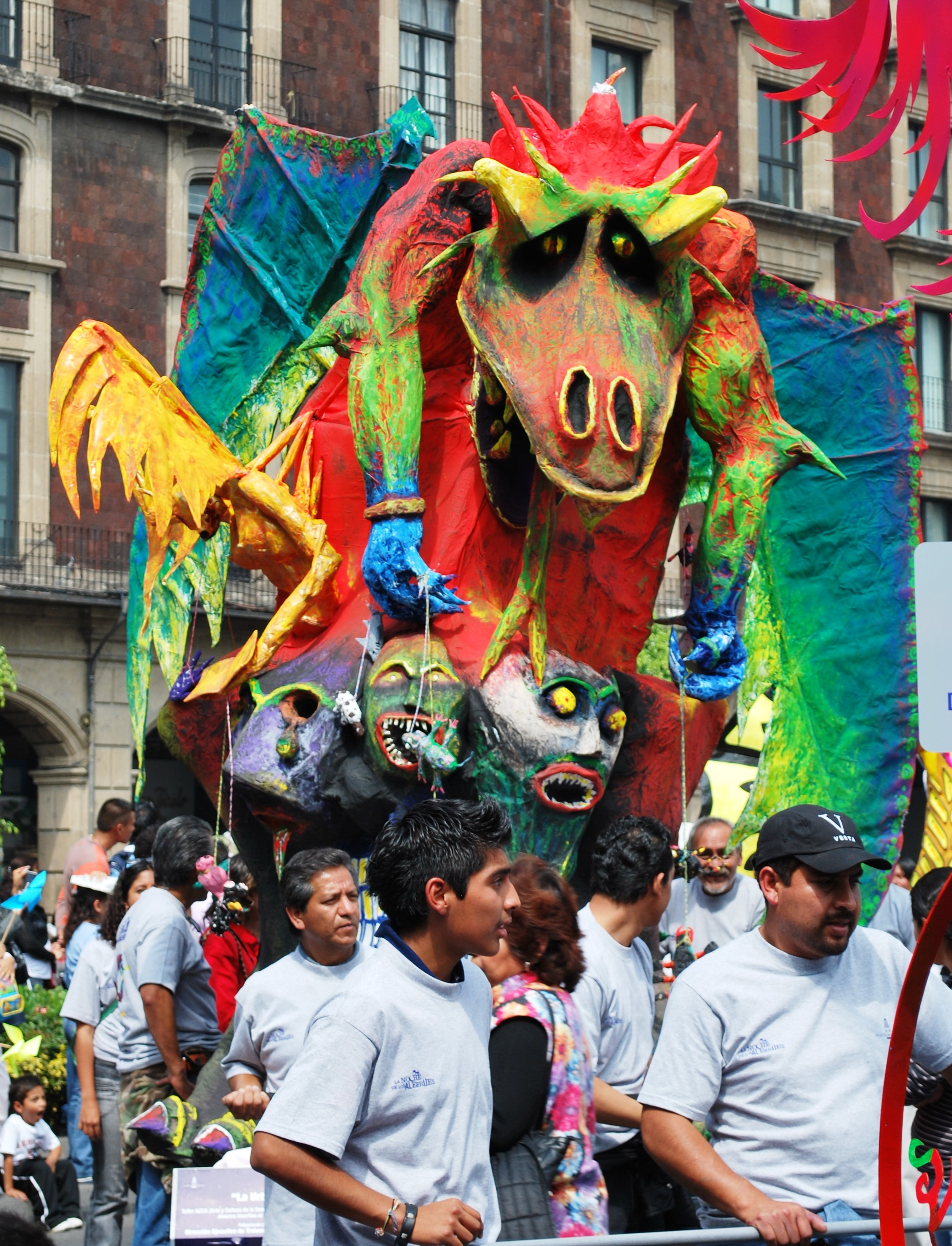 Alebrije named La Urbe at the beginning of the parade in the Zocalo